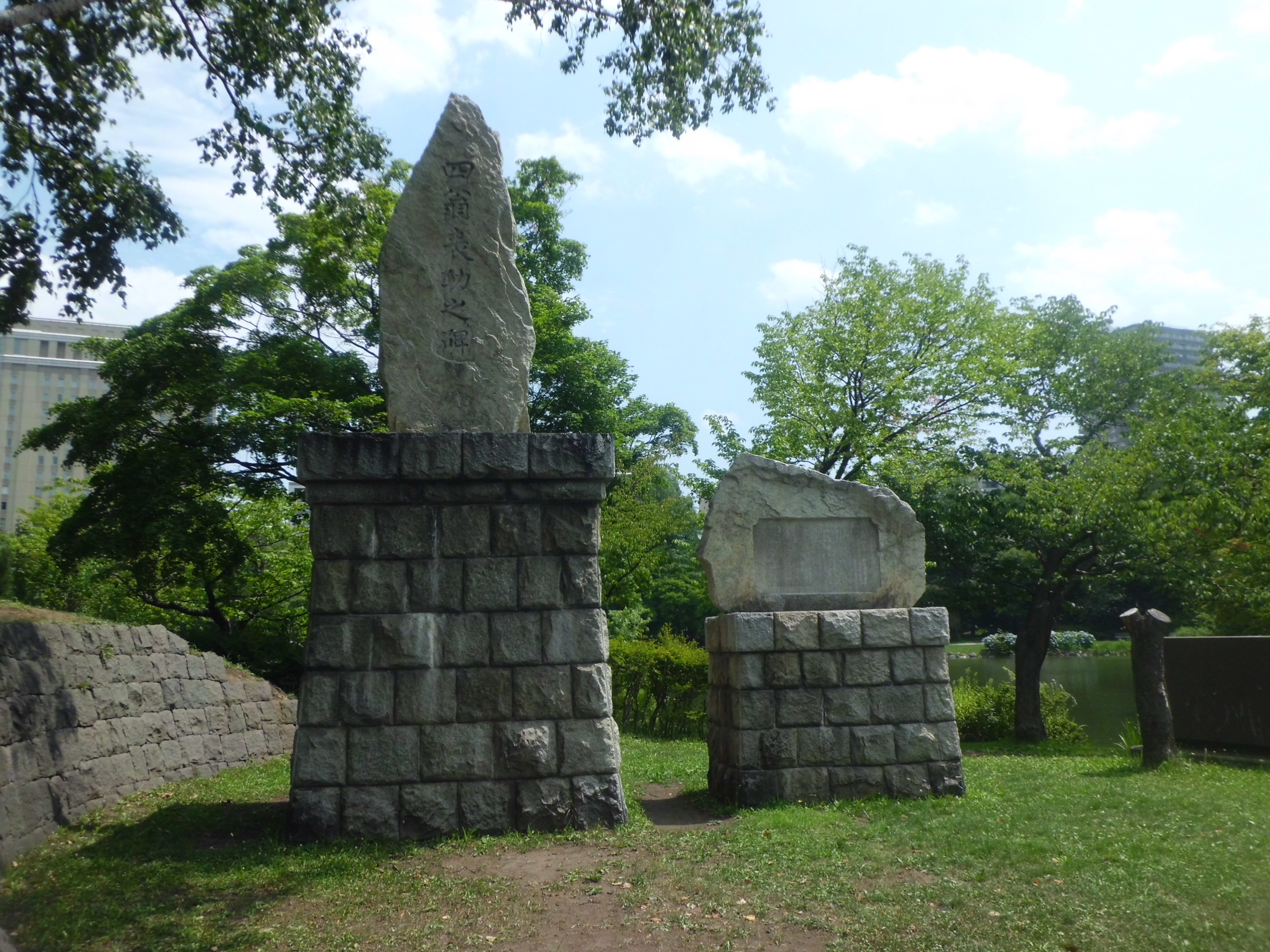 Monument to 4 Honorable Men